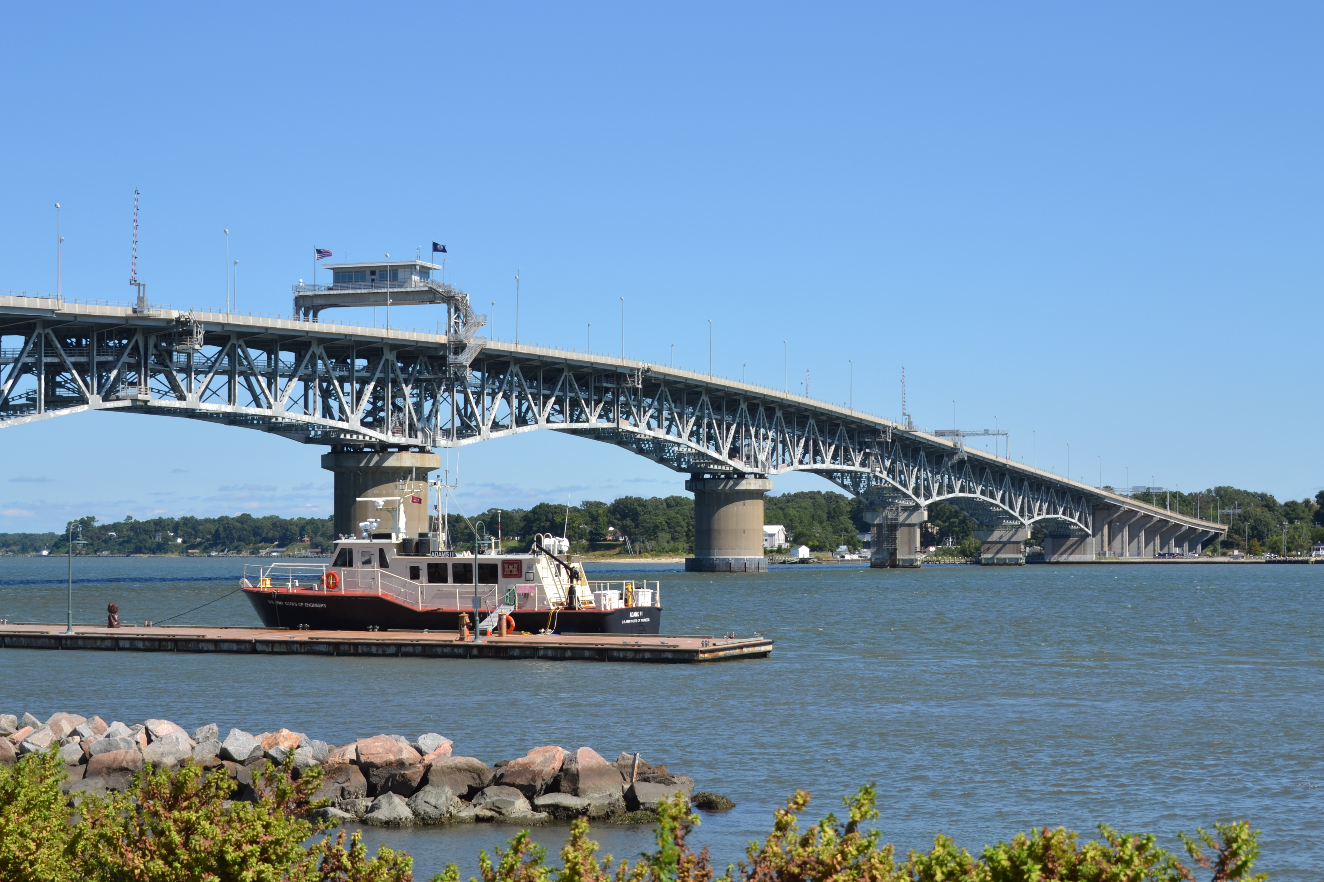 The George P. Coleman Memorial Bridge is a tall bridge, but still has a draw section for taller ships. This is a view from Yorktown. The Adams II, a U.S. Army Corps of Engineers vessel, is in the foreground.